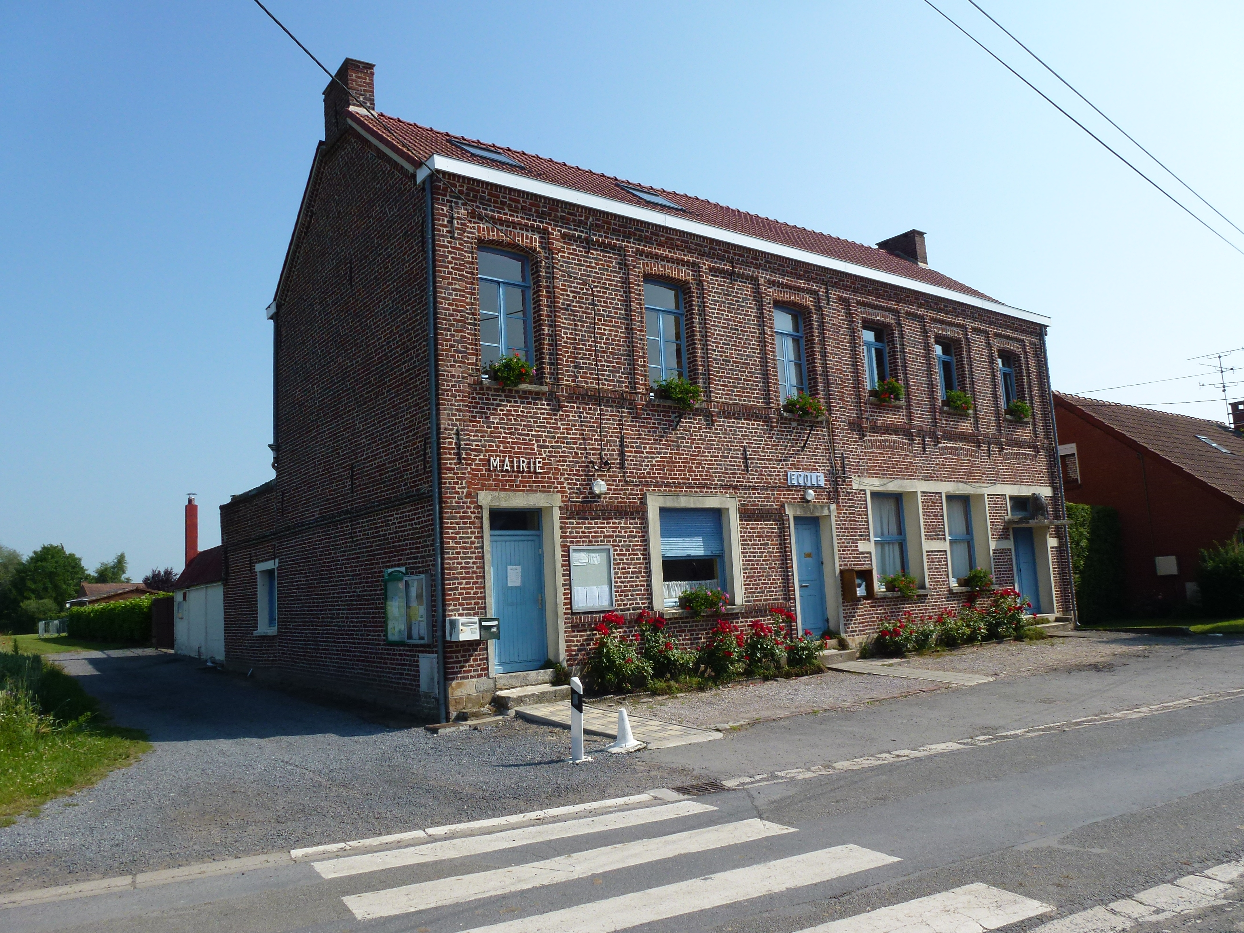 Bousignies (Nord, Fr) maire-école